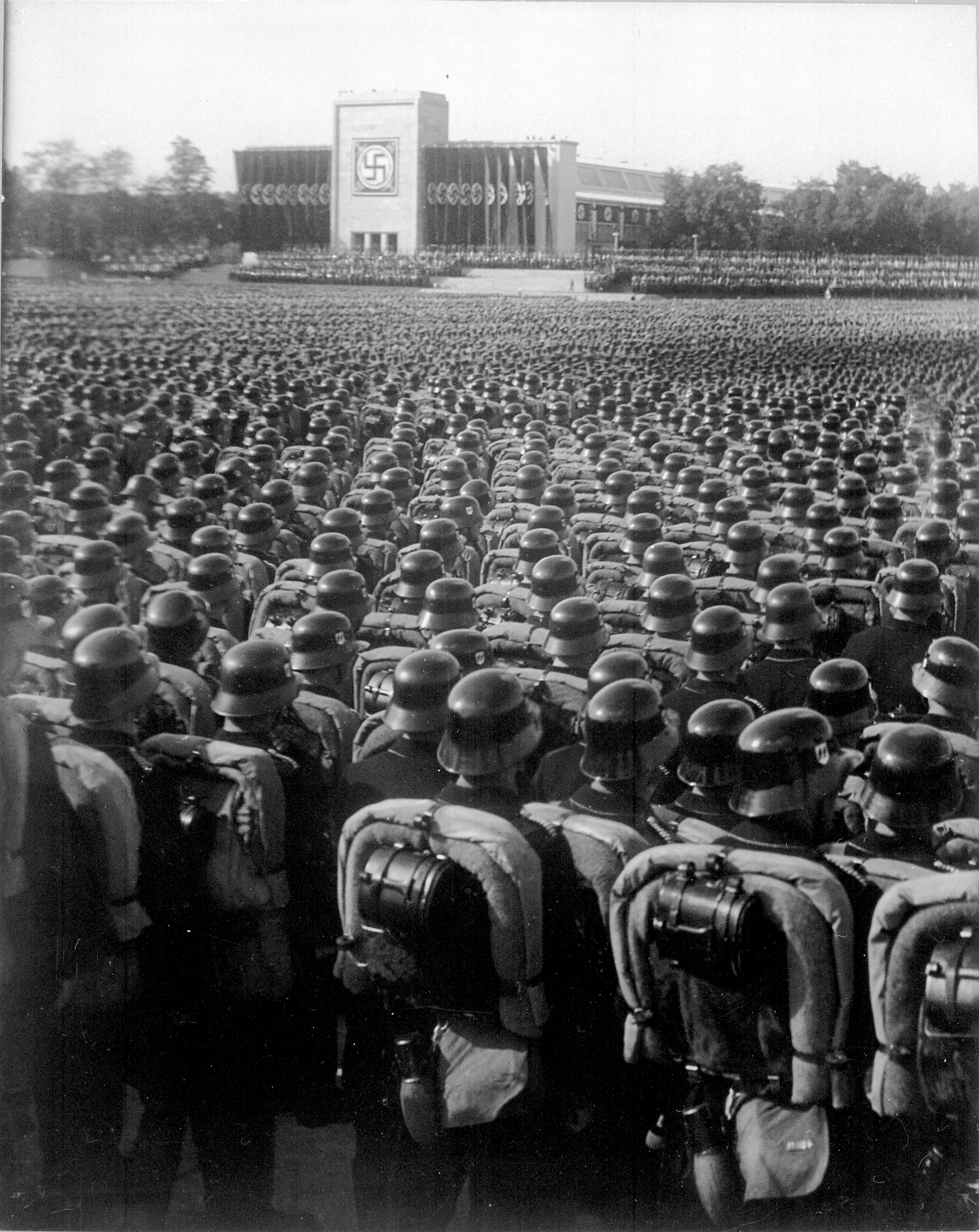 Nuremberg Rally.Overview of the mass roll call of SA, SS, and NSKK troops.